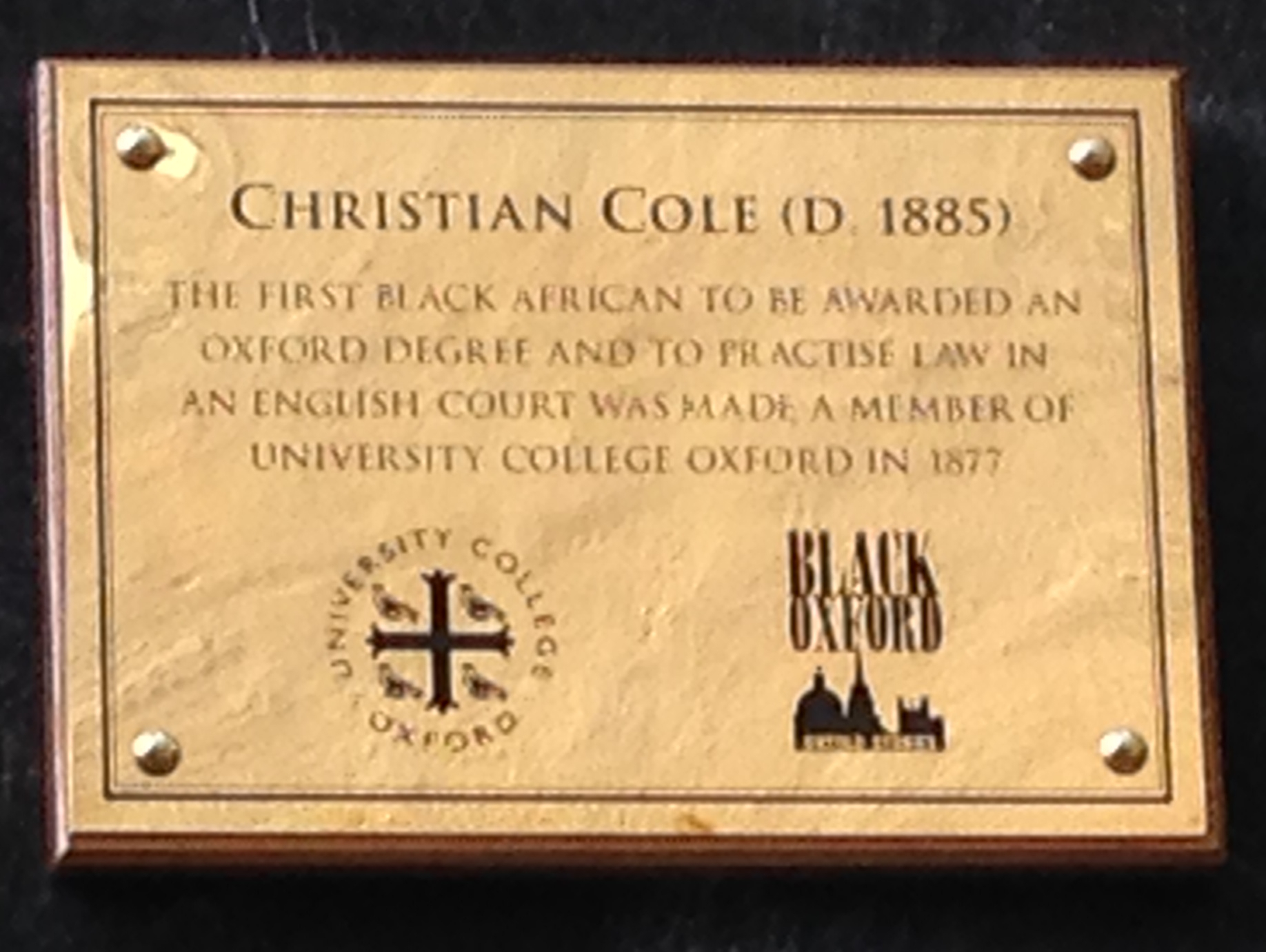 Christian Cole (d. 1885), the first black African to be awarded an Oxford degree and to practise law in an English court was made a member of University College Oxford in 1877 Logic Lane , Oxford OX1 4EX Plaque erected 14 October 2017 by University College Oxford and Black Oxford: Untold Stories (This image represents an Open Plaques entry)